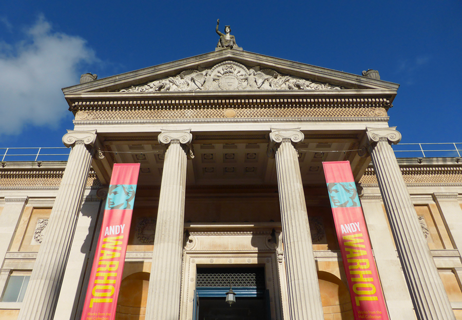 Ashmolean Museum Entrance February 2016